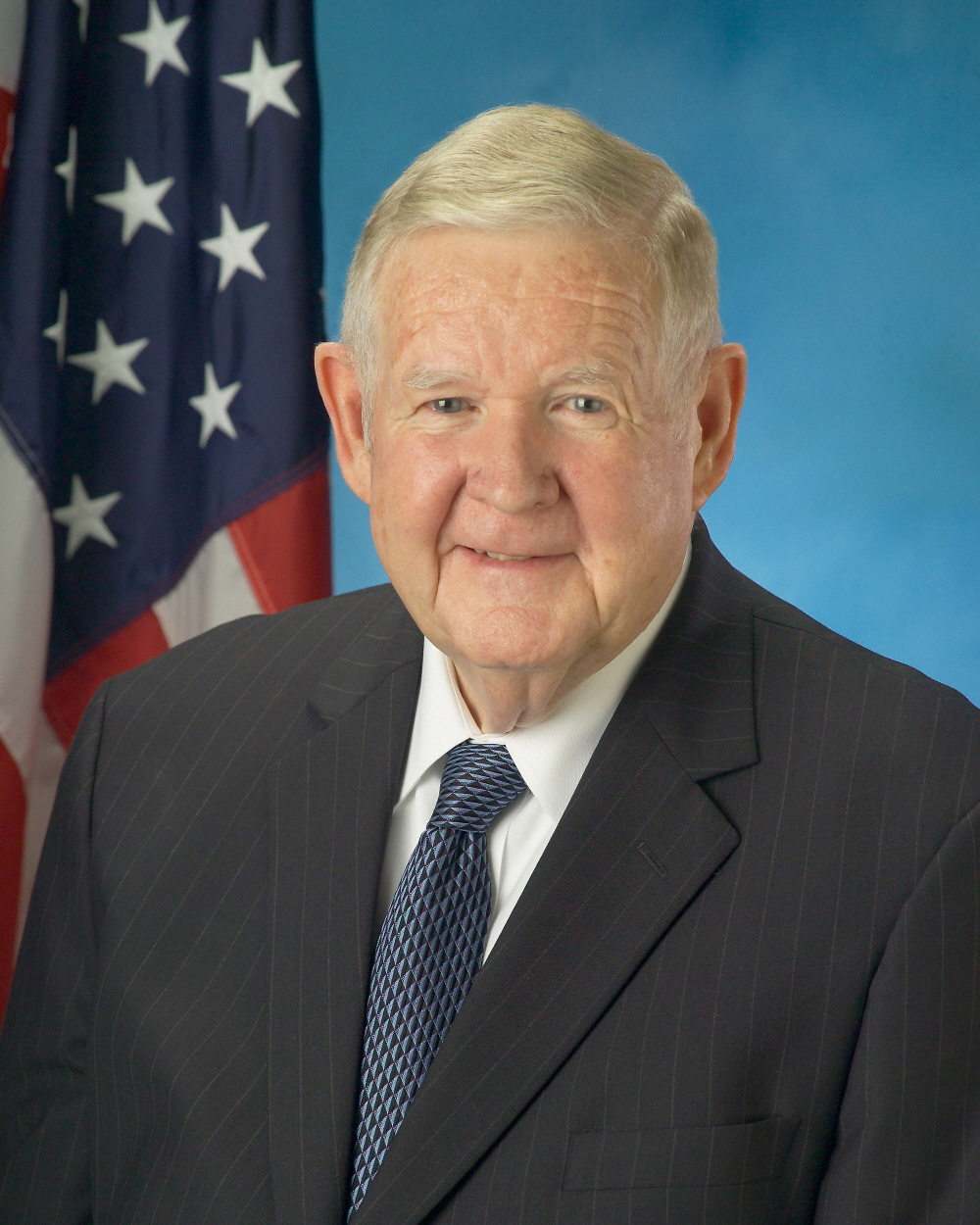 Official portrait of John Murtha, U.S. Congressman from Pennsylvania.